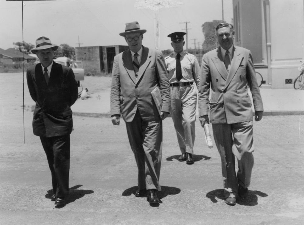 Members of the Collinsville Royal Commission, 1954 Members of the Royal Commission are being escorted by Constable Gordon Duncan at Bowen, during a break in proceedings. The members pictured are Walter Scott, Justice Sheehy (chairman) and Septimus Flowers. (Description supplied with photograph.). The Royal Commission was being held into the cause of a 1954 poison gas explosion at Collinsville State Coal Mine which claimed seven lives.